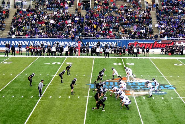 The University of Mount Union Purple Raiders lining up on defense with the University of Wisconsin–Whitewater Warhawks lining up on offense in the second quarter of the 2010 Stagg Bowl at Salem Stadium in Salem, Virginia, USA.